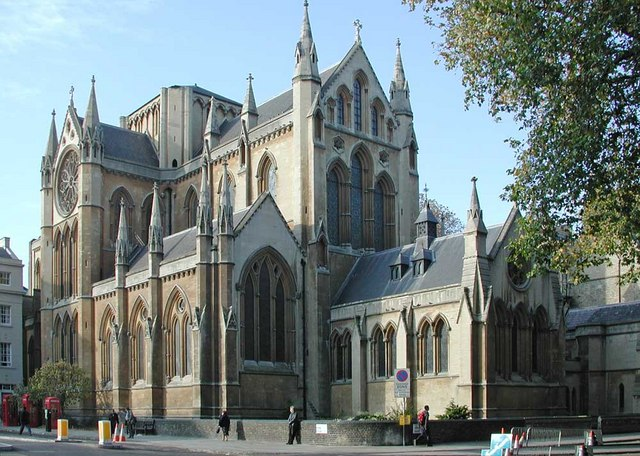 Christ the King, Gordon Square, London WC1